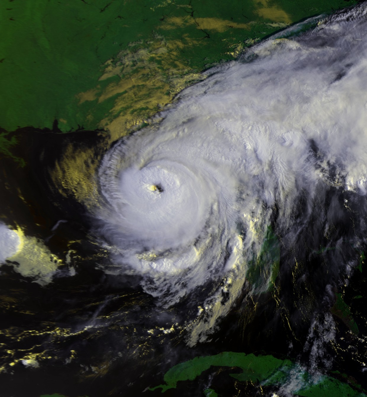 Hurricane Elena from NOAA 8. Inventory ID: NSS.HRPT.NE.D85244.S1253.E1304.B1262222